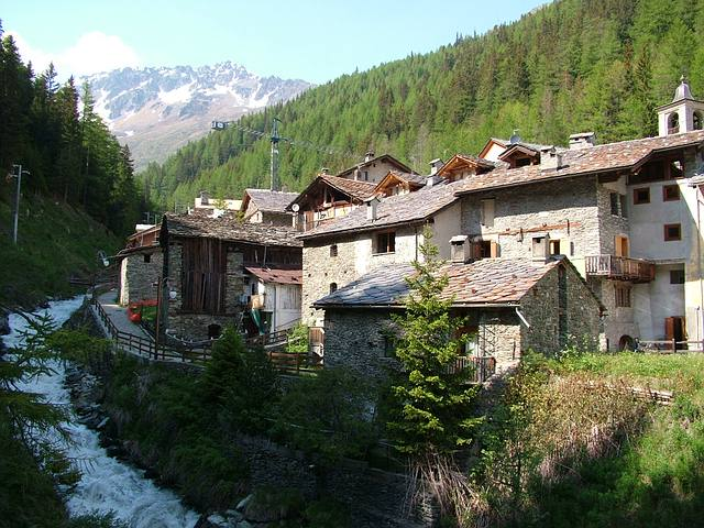 Overview of Saint-Rhémy-en-Bosses (Aosta Valley, Italy)